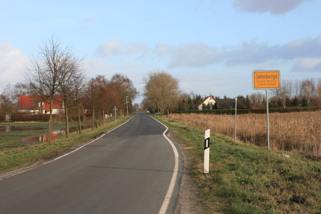 Jahnberge in Brandenburg, Germany